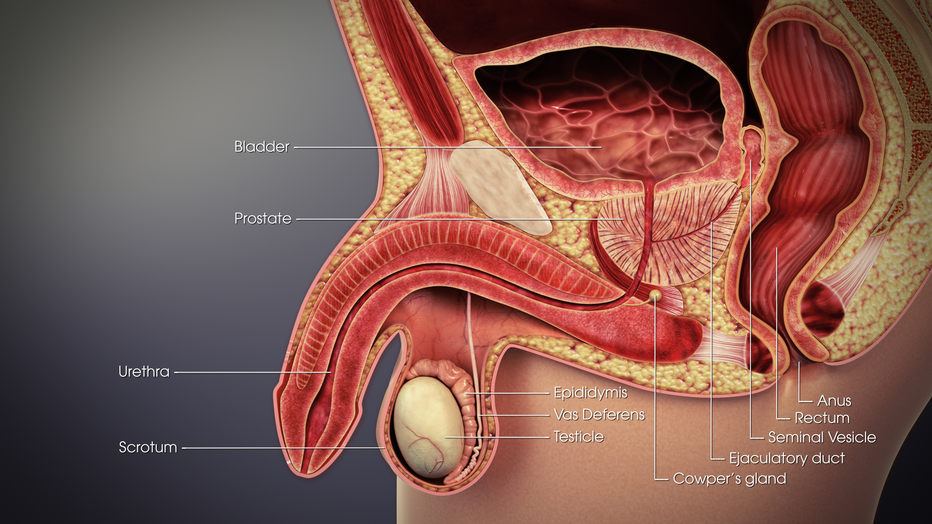 3D medical illustration depicting vas deferens and other major components of the male reproductive system.